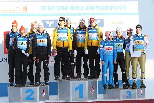 Podium of team competition of FIS Ski-Flying World Championships 2012